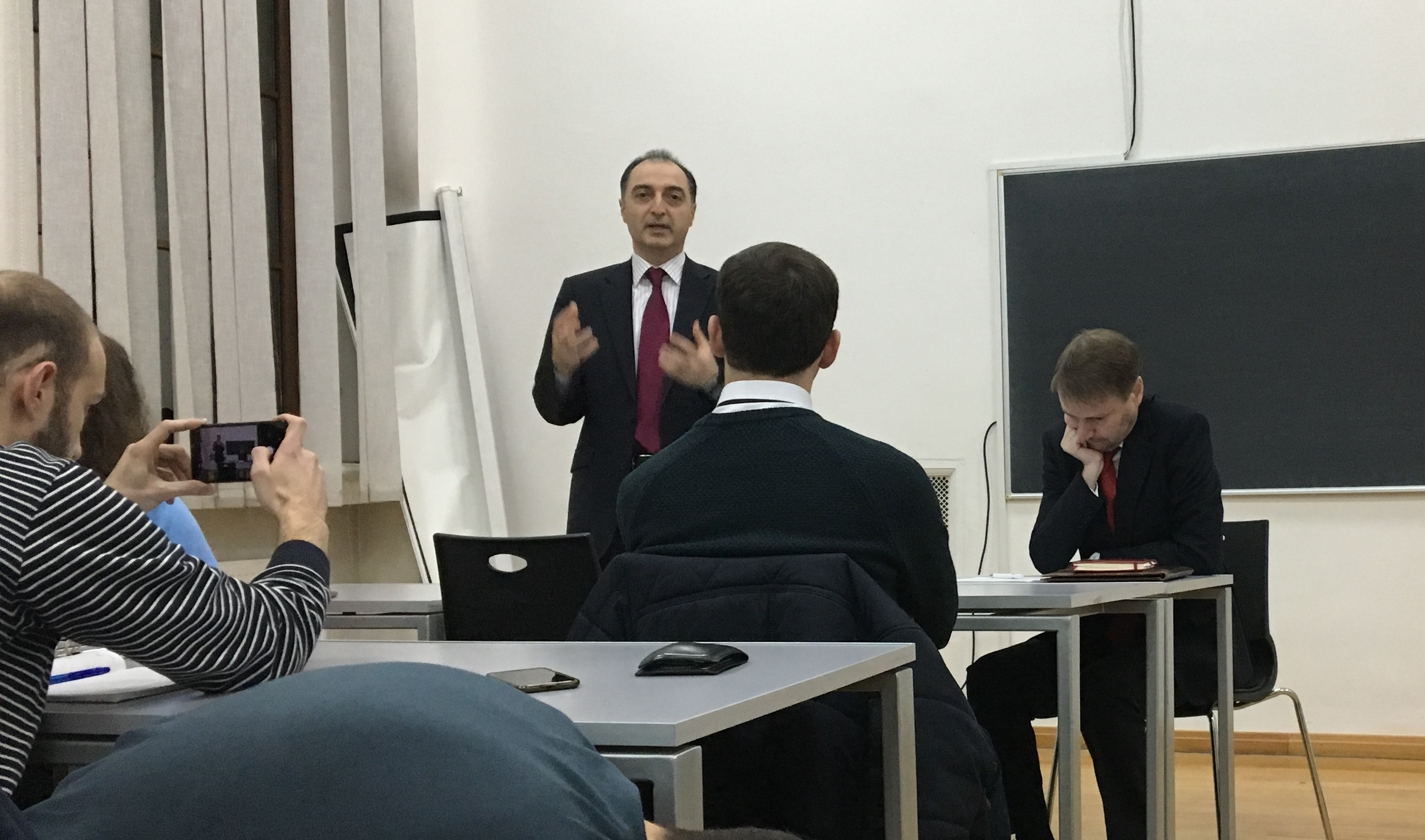 Giorgi Badridze and UK Ambassador Justin McKenzieSmith .